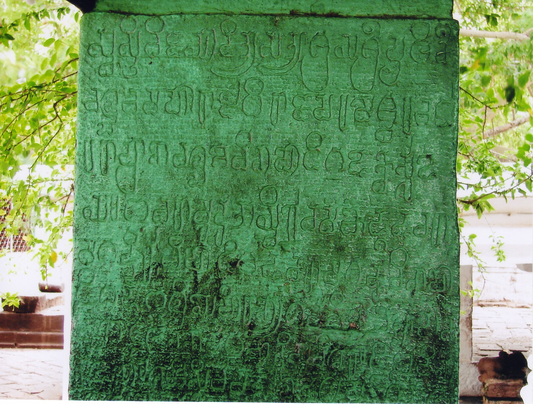 The Old-Kannada inscription at the Mahakutesvara temple in Mahakuta, Karnataka, India is ascribed to Vinapoti, a concubine ofw:Chalukya dynasty king Vijayaditya of Badami and is dated to the (696–733 CE) period. (source:Pâli, Sanskṛit and old Canarese inscriptions from the Bombay Presidency and parts of the Madras Presidency and Maisûr, chapter:Analysis of Inscriptions, Pattadakal:pg.14, item.50-John Faithful Fleet, James Burgess, Archæological Survey of Western India, 1878